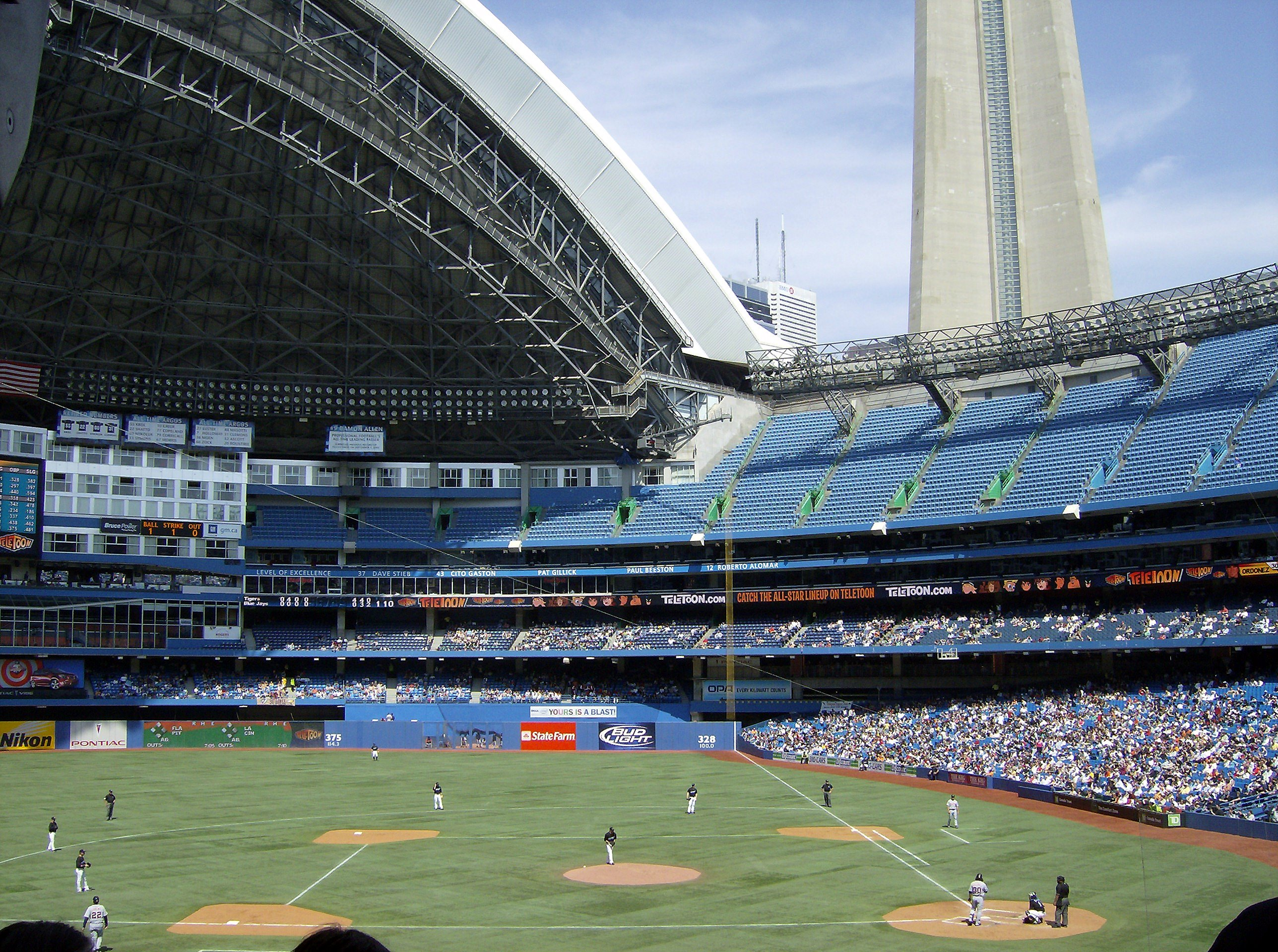 Description Tigers play Blue Jays in April 2008 at Rogers Centre. DateSourceOwn workAuthorMike Russell 14:02, 29 April 2008 . . Mikerussell . . 2,576×1,920 (1.24 MB) Tigers play Blue Jays in April 2008 at Rogers Centre.